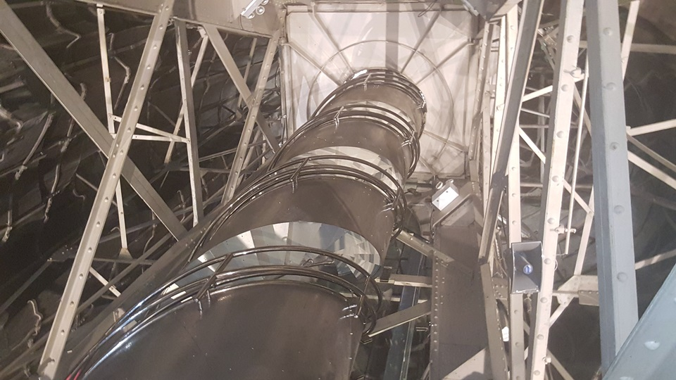 The spiral staircase inside the Statue of Liberty, Liberty Island, NYC